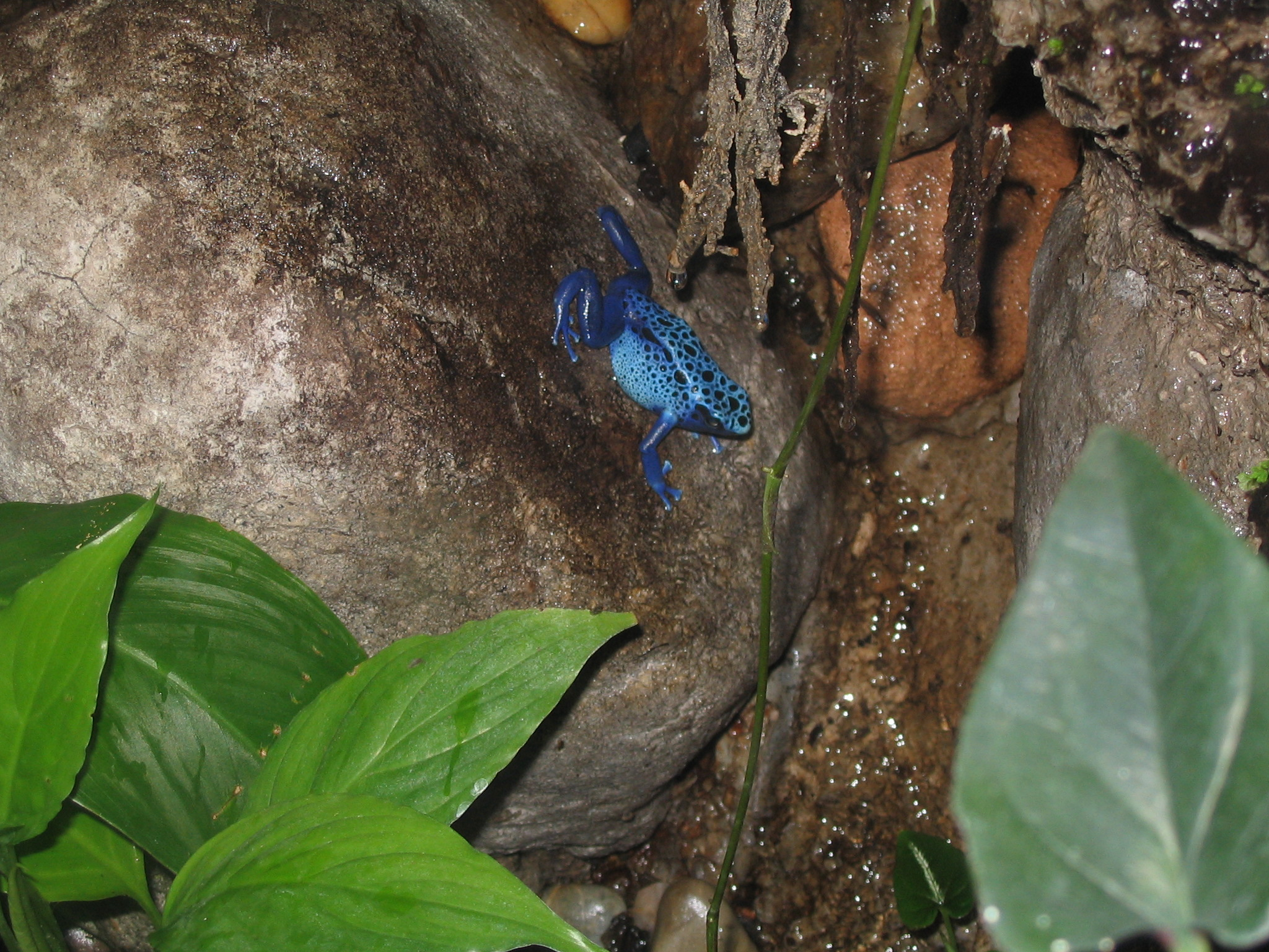 Picture of a Blue Poison Dart Frog (Dendrobates azureus) I took on a trip to the National Aquarium in Baltimore.